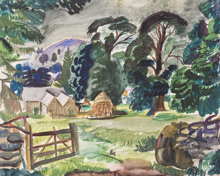 Perthshire Farm. Watercolour and Gouache. ca 1937.